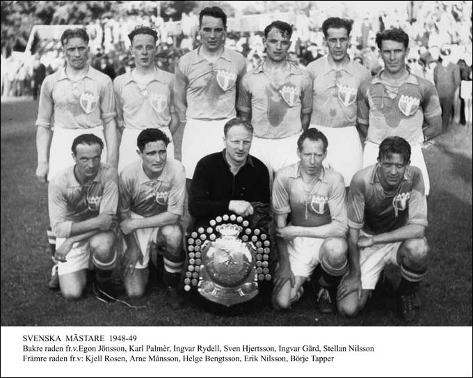 Malmö FF:s guldlag efter säsongens avslutningsmatch mot GAIS (0-0) den 6 juni 1949.